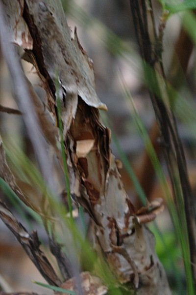 Main stem of Physocarpus monogynus (mountain ninebark, low ninebark), showing peeling bark. Forest Road 144, Rio Arriba County, New Mexico, roughly 36 N, 106 W, altitude maybe 8000 feet. Considerably lightened, with a little unsharp mask.